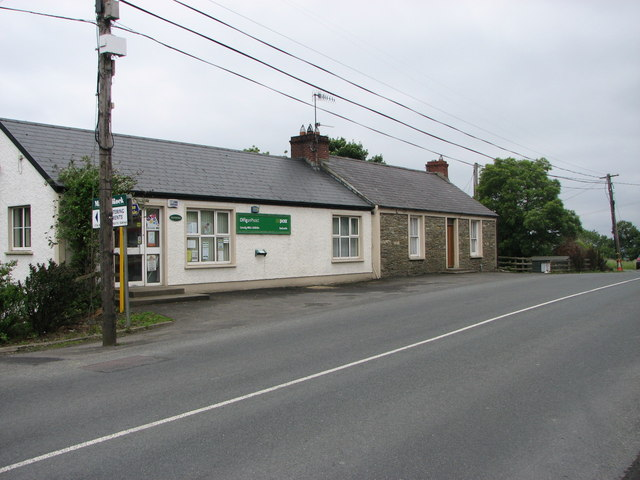 Redcastle Post Office Redcastle P.O. and small general store along the main road which runs through the village.